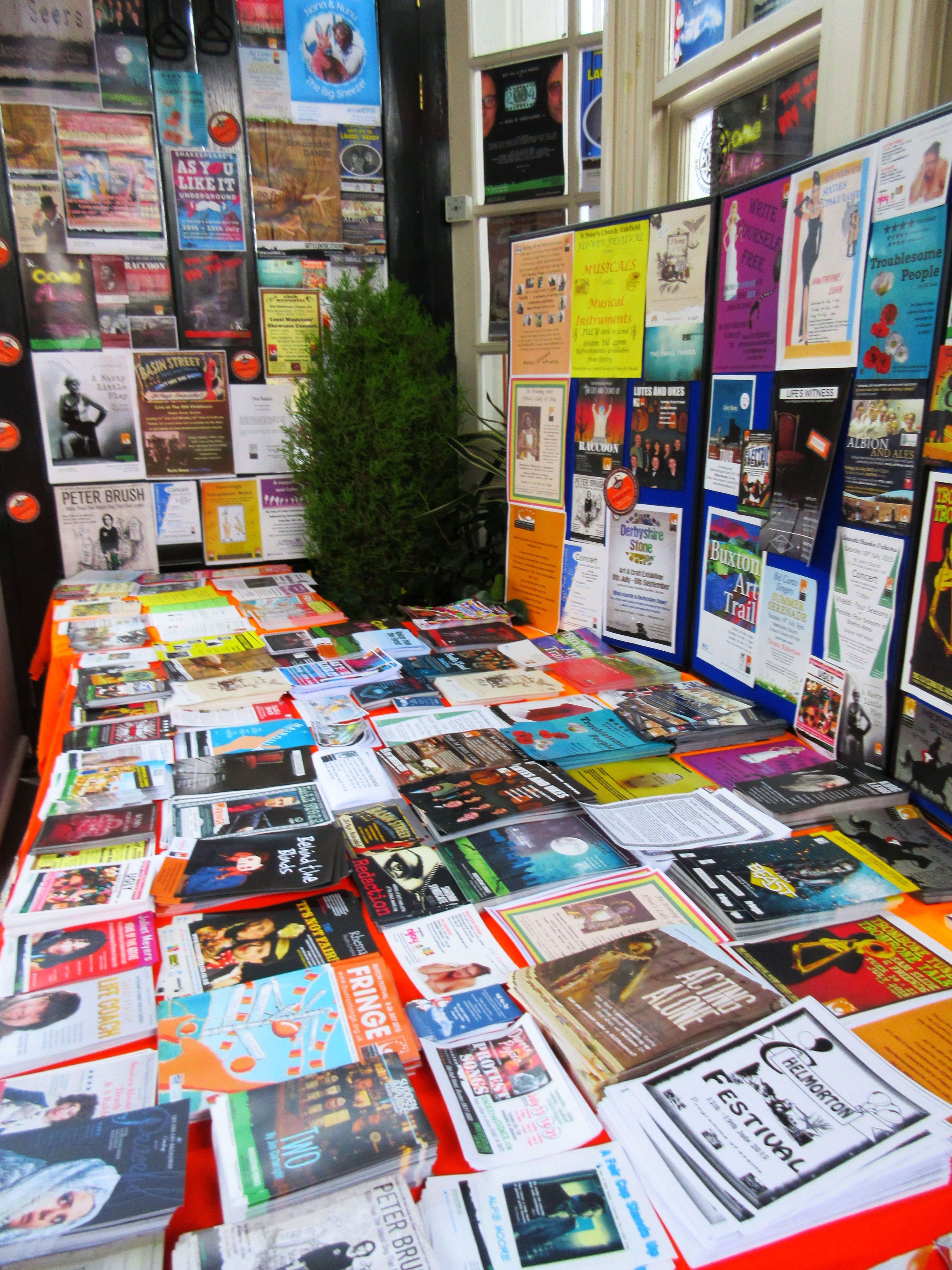 Flyers and Posters at the Buxton Festival Fringe Information Desk